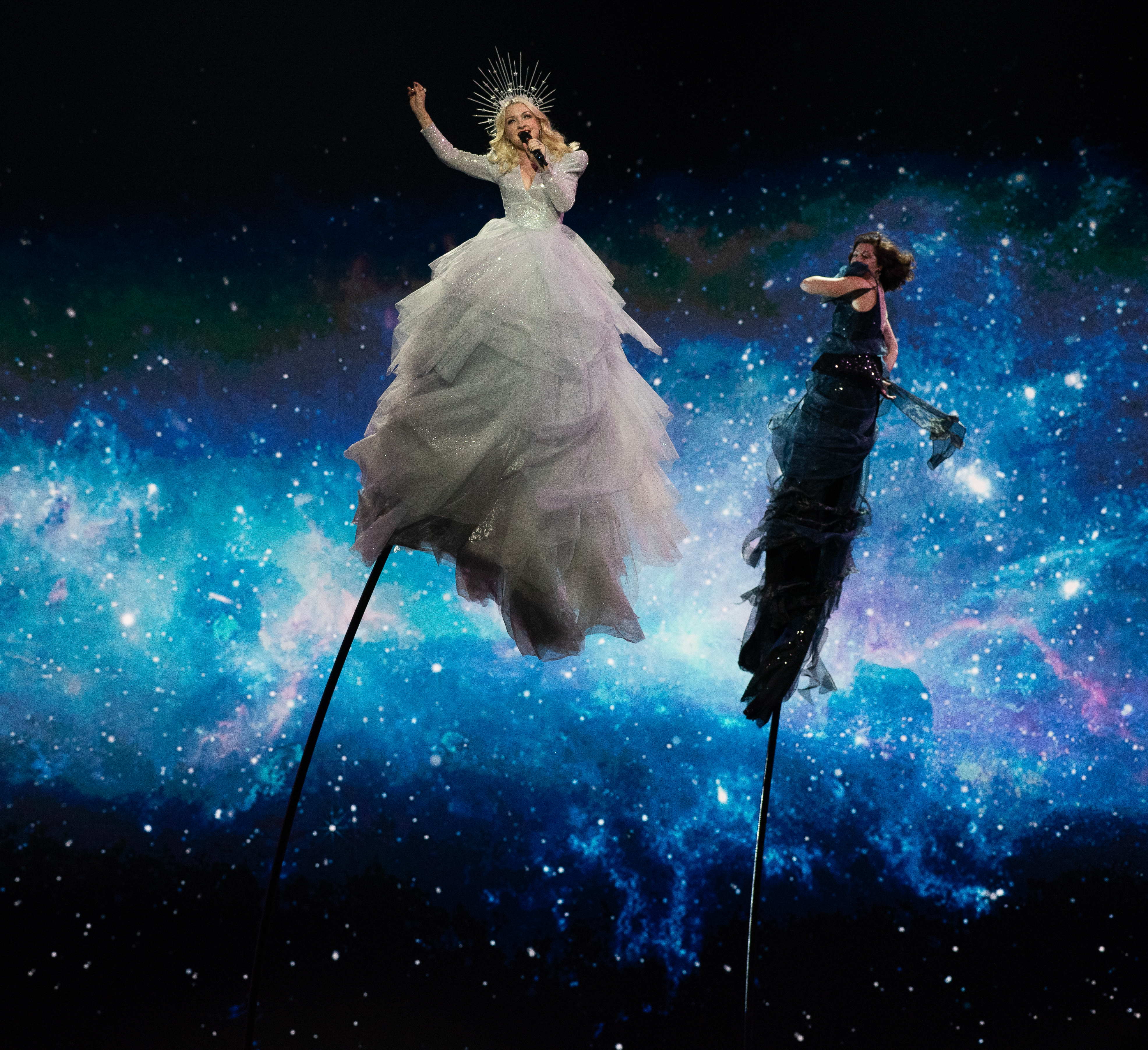 At the 2019 Eurovision Song Contest Semi-final 1 dress rehearsal